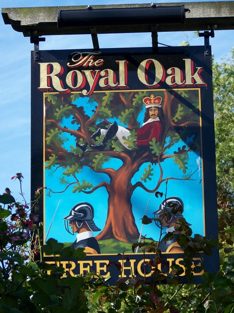 Sign for the Royal Oak in Wootton Rivers in Wiltshire. The sign is second in popularity to the Red Lion. Charles II, together with his aide Colonel Carless, hid in the Boscobel Oak, near Shifnal, in order to escape from the Roundhead soldiers who were pursuing him. Charles had suffered defeat at the Battle of Worcester, 1651. After the Restoration of Charles II to the throne it was declared that 29th May, the king's birthday should be celebrated as Royal Oak Day as an act of thanksgiving. The popularity of the pub sign may be attributed to genuine rejoicing that the monarchy had been restored, but it also comments on the appeal of particular human incidents, over the great events that shaped our history.